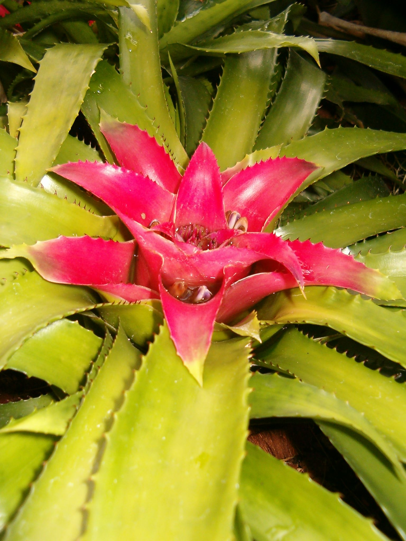 Habitus and Inflorescence Location: Botanical Gardens Berlin